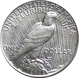 Reverse of Peace Dollar